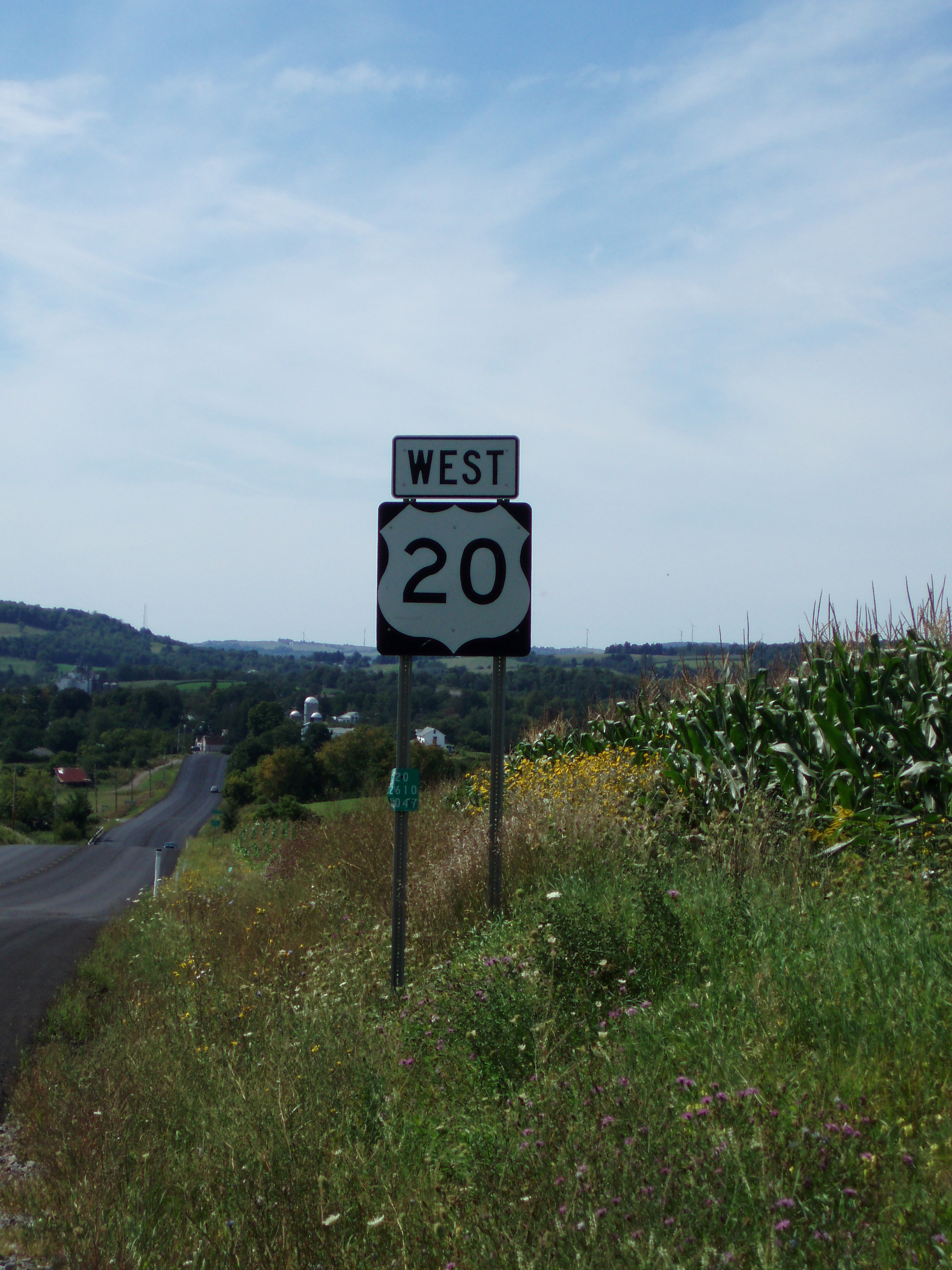 U.S. Route 20 marker in Oneida County, NY